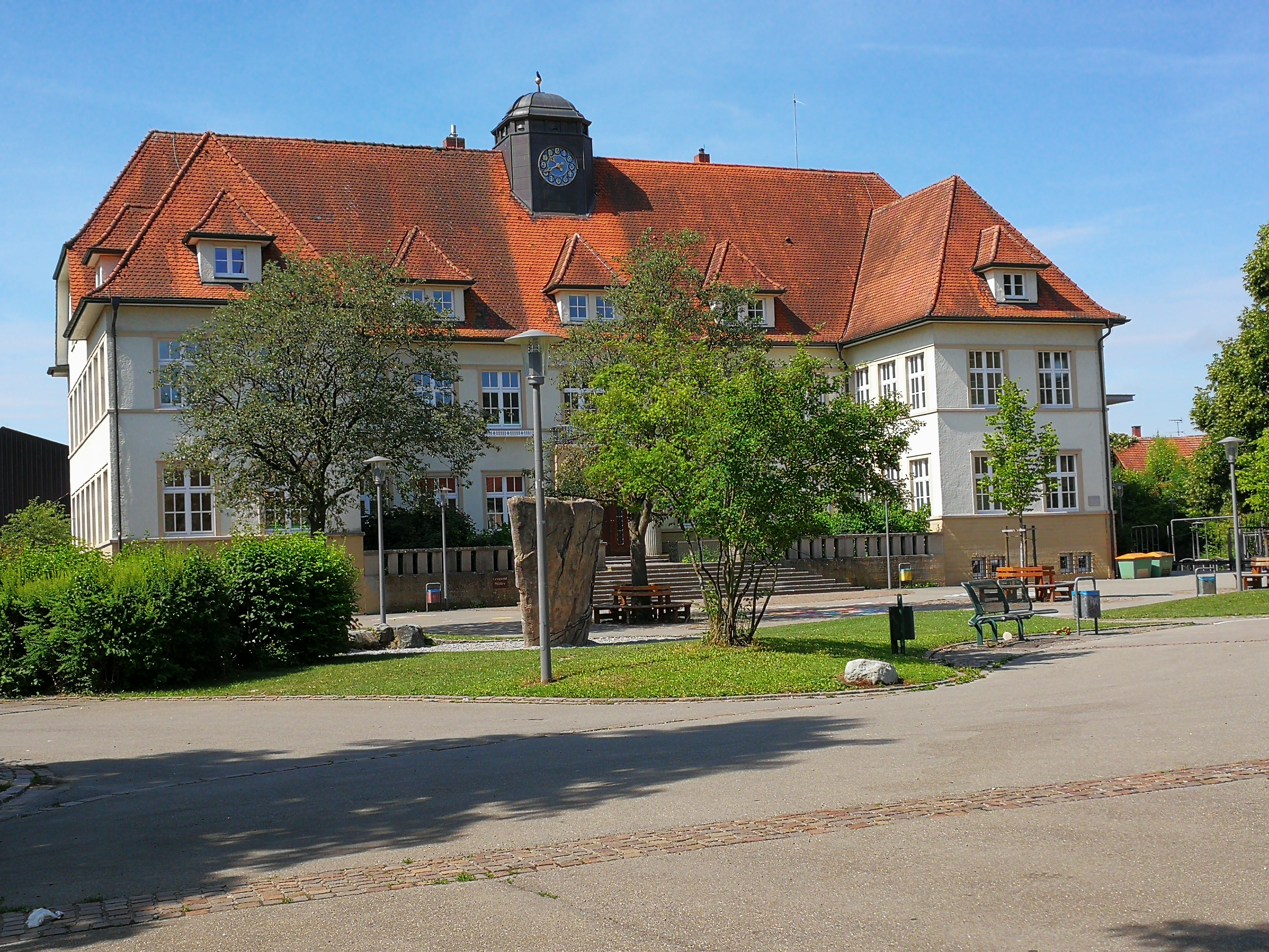 School-building in Gottmadingen, Rathausplatz 2